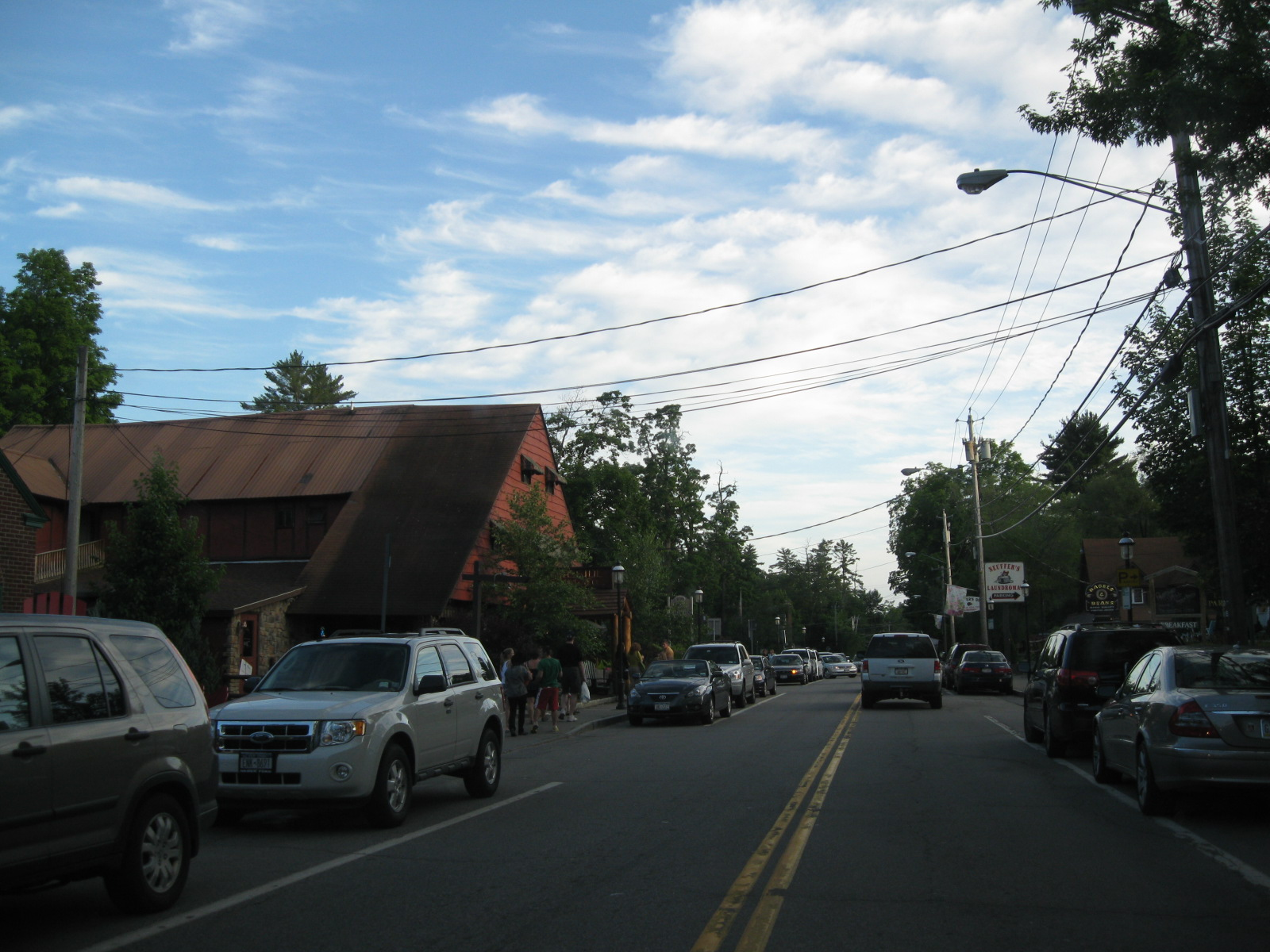 New York State Route 9N passes through the community of Bolton Landing, New York in the mid-afternoon.